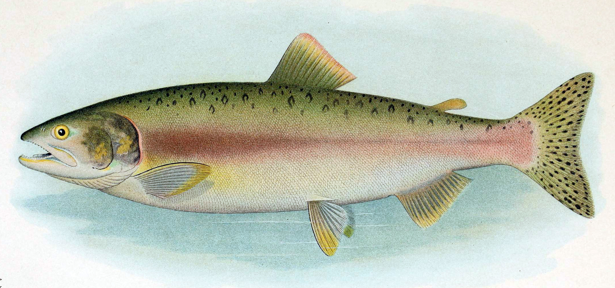 Humpback Salmon, Breeding Female